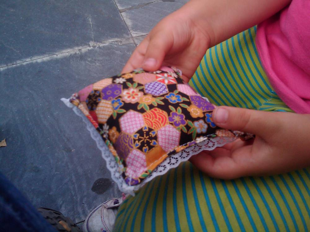 PincushionEuskara: Donostian 2010. urtean erositako kutuna